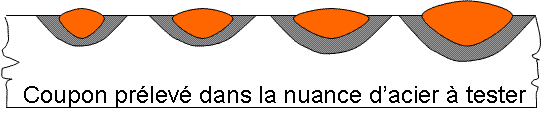 Bead on plate test